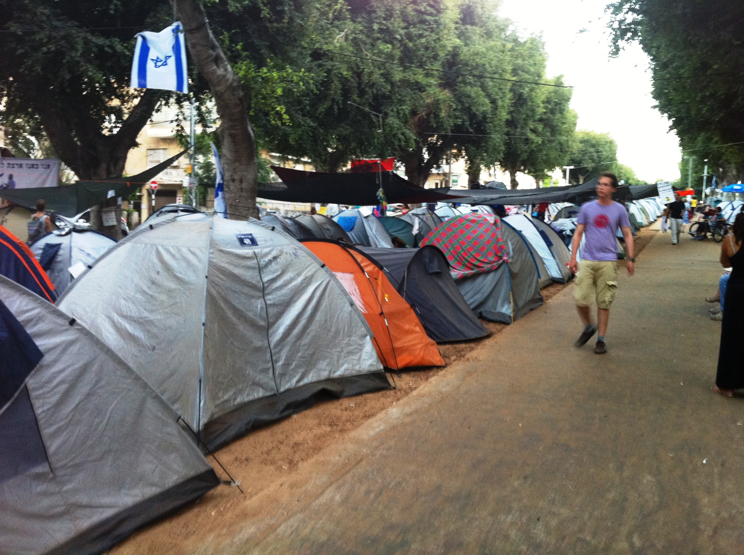 Real Estate Protest in Tel Aviv 25.7.2011